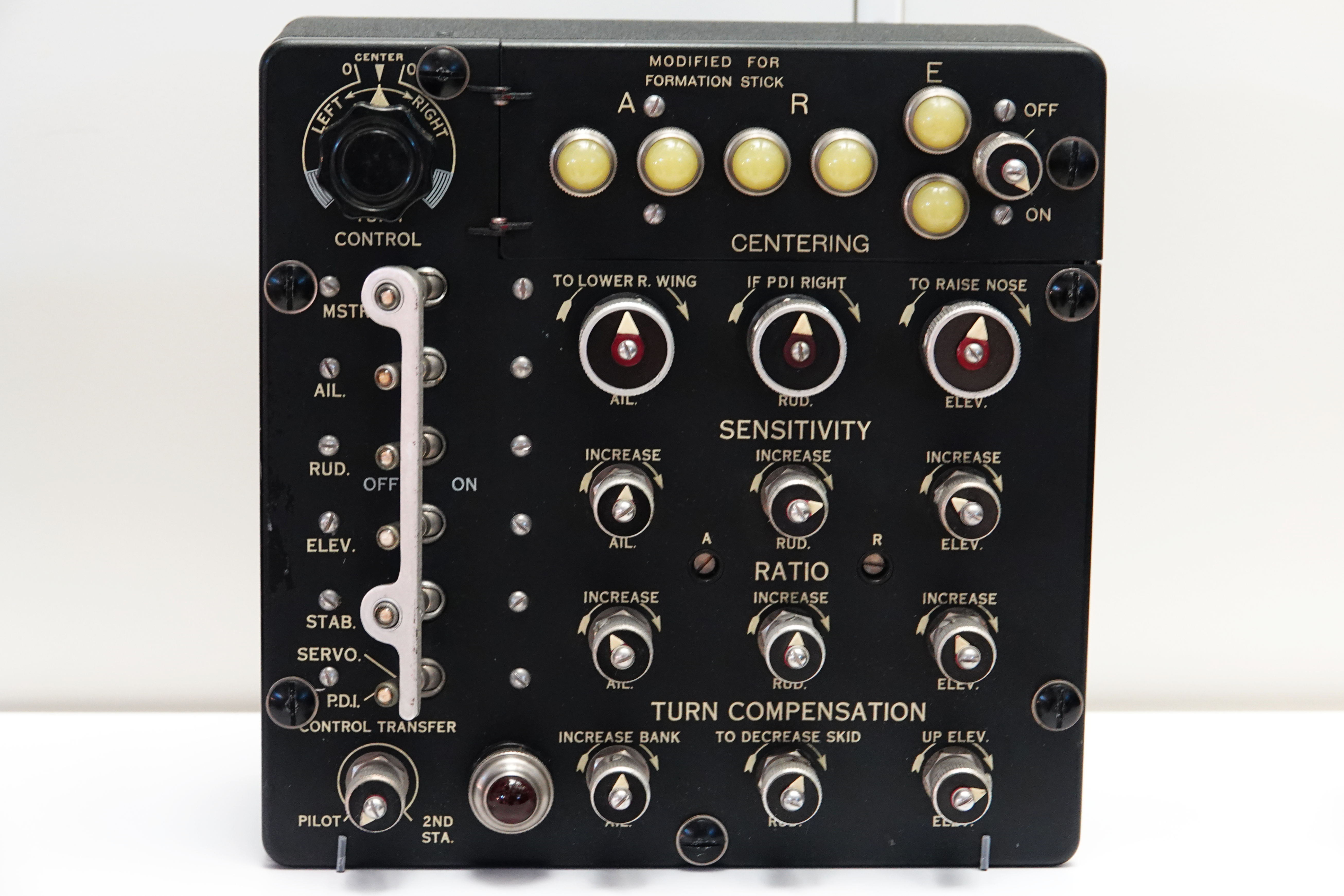 Picture of a Minneapolis-Honeywell C-1 Autopilot Control Panel The Norden bombsights on American bombers controlled direction on the bomb run through the hydraulically-actuated C-1 autopilot. This panel allowed pilots to fine-tune the autopilot. Picture taken at the National Air and Space Museum's Steven F. Udvar-Hazy Center in Chantilly, Virginia, USA.